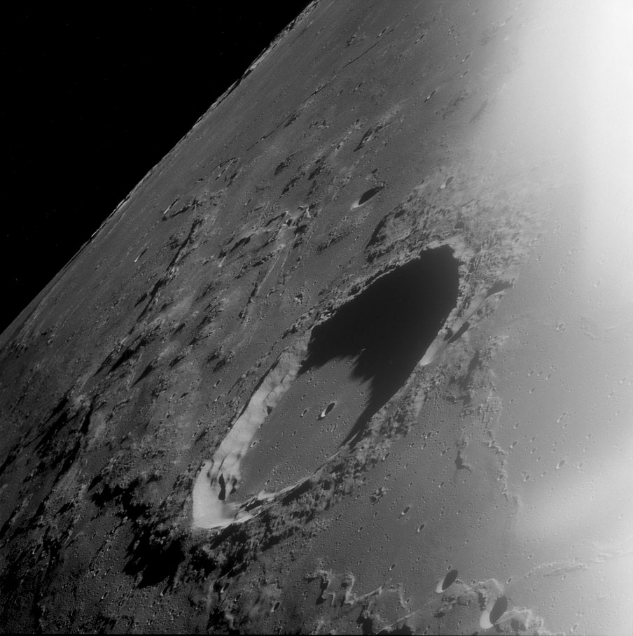 An oblique view of the Marius Crater from lunar orbit taken on the Apollo 12 mission. Image number AS12-52-7757.